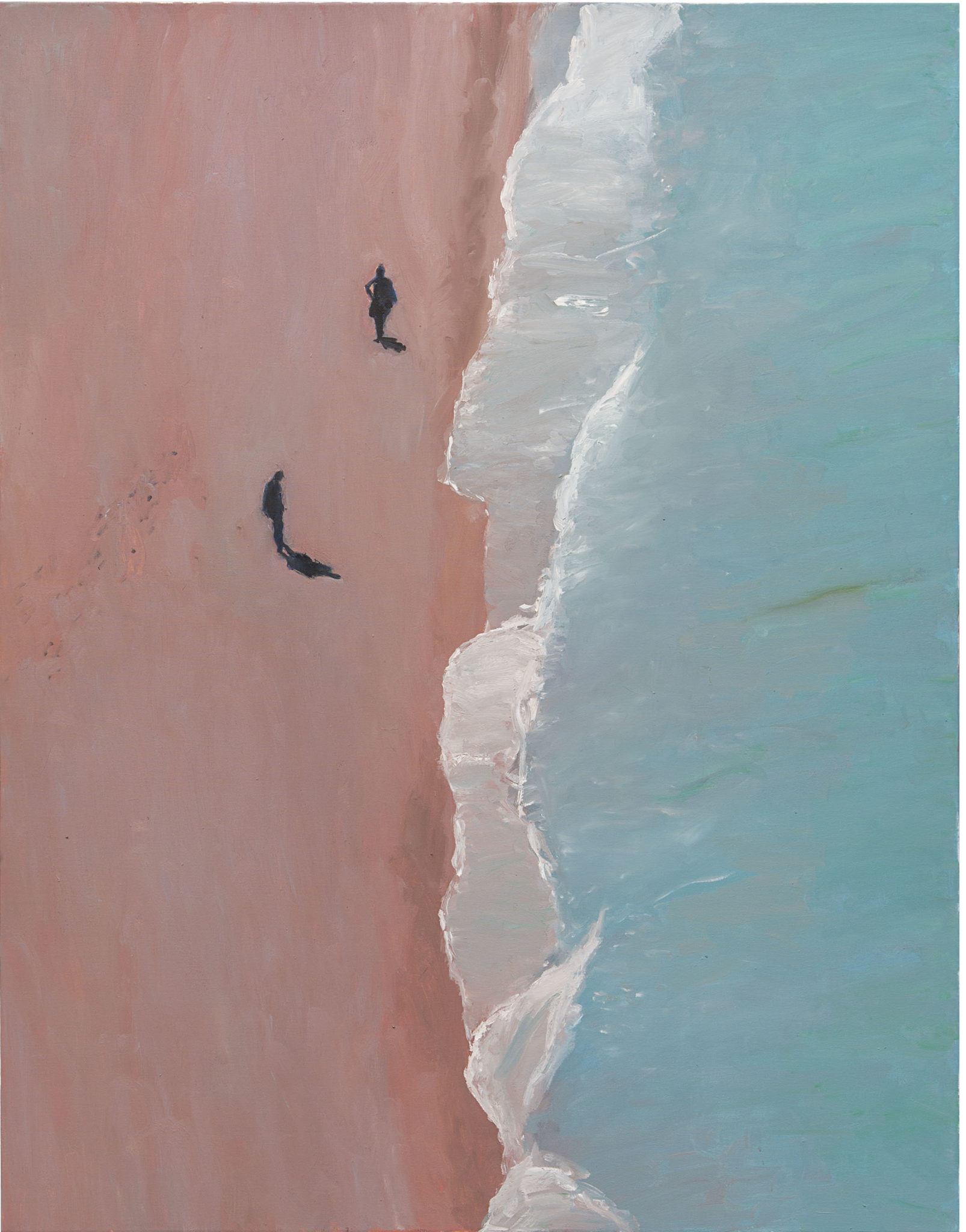 Nicola Gardini painting